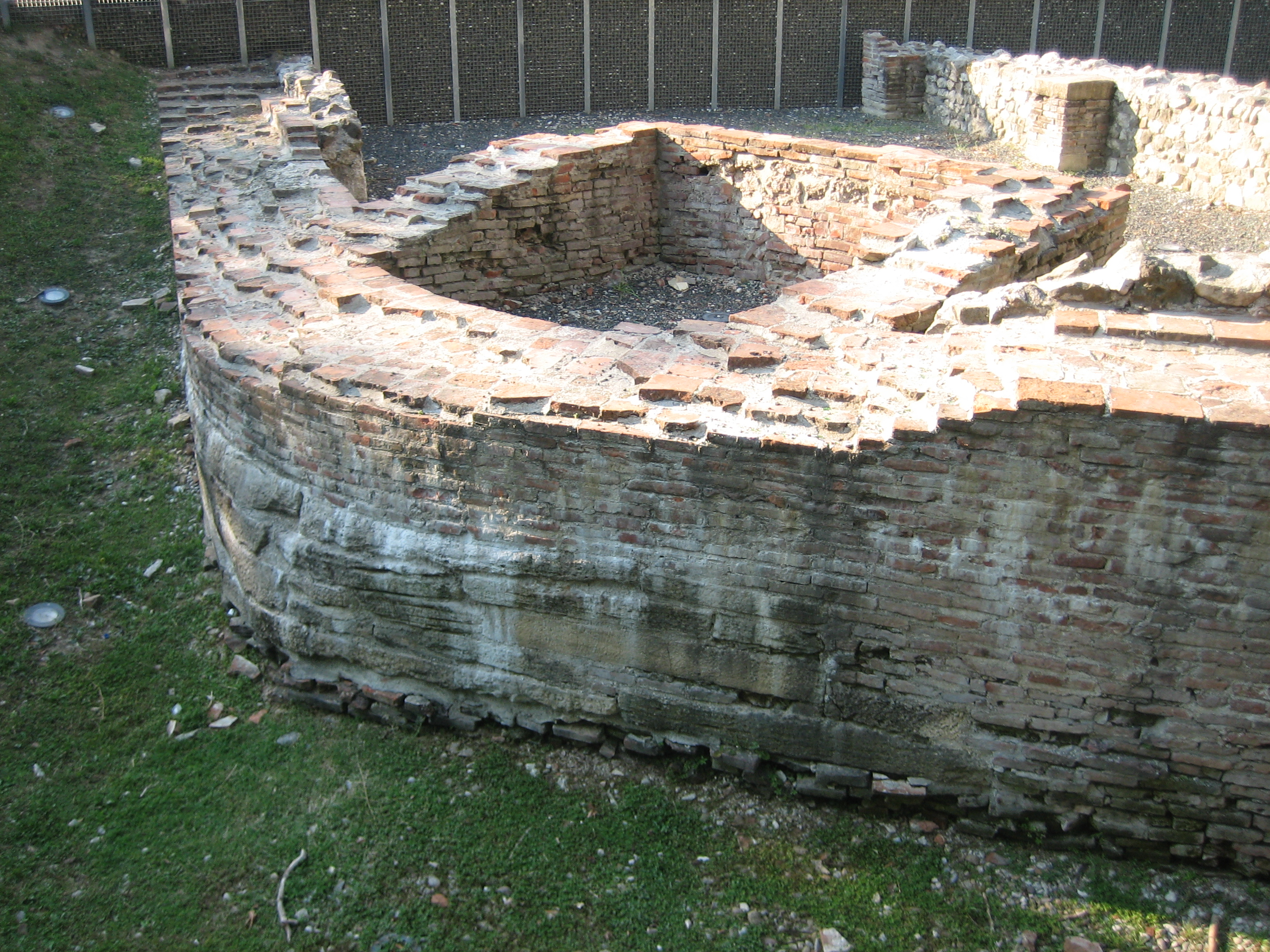 Remnants of the ancient Roman city walls of Siscia in Sisak, Croatia, 1st-3nd cent. / Ostaci obrambenih zidina rimske Siscije u Sisku, 1.-3. st.